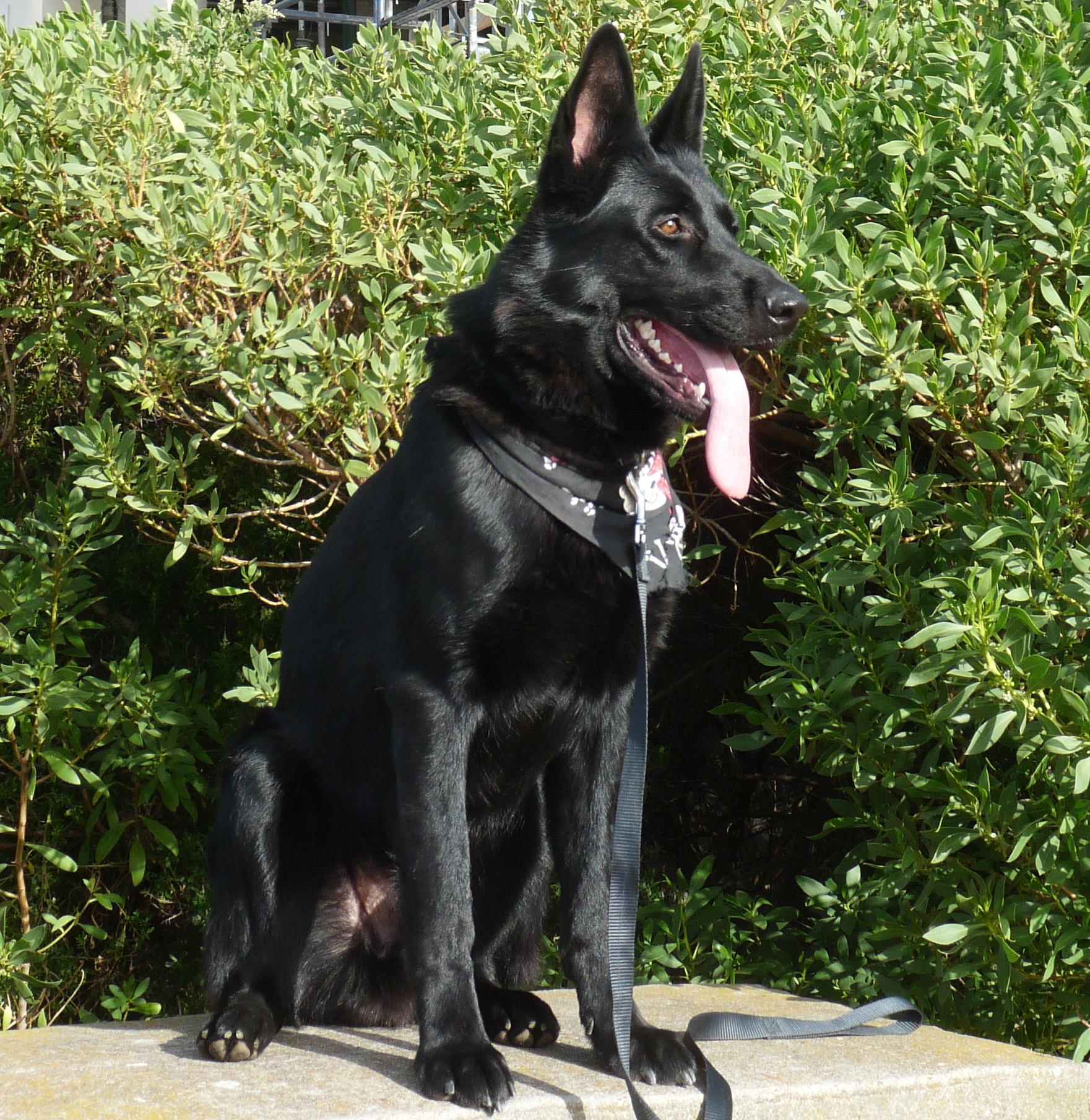 A solid black German Shepherd